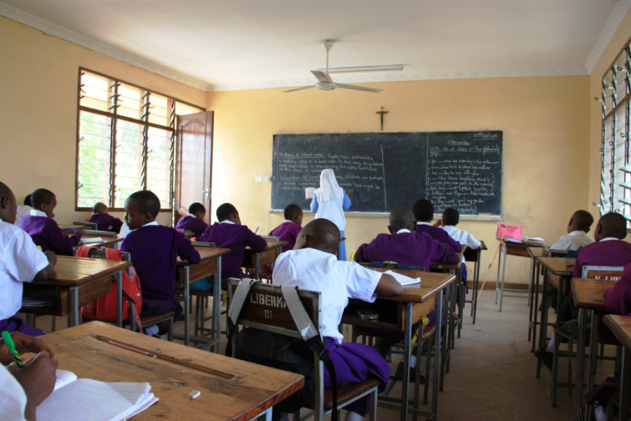 Classroom at Himo Holy Child Primary School, Kilimanjaro region, Tanzania